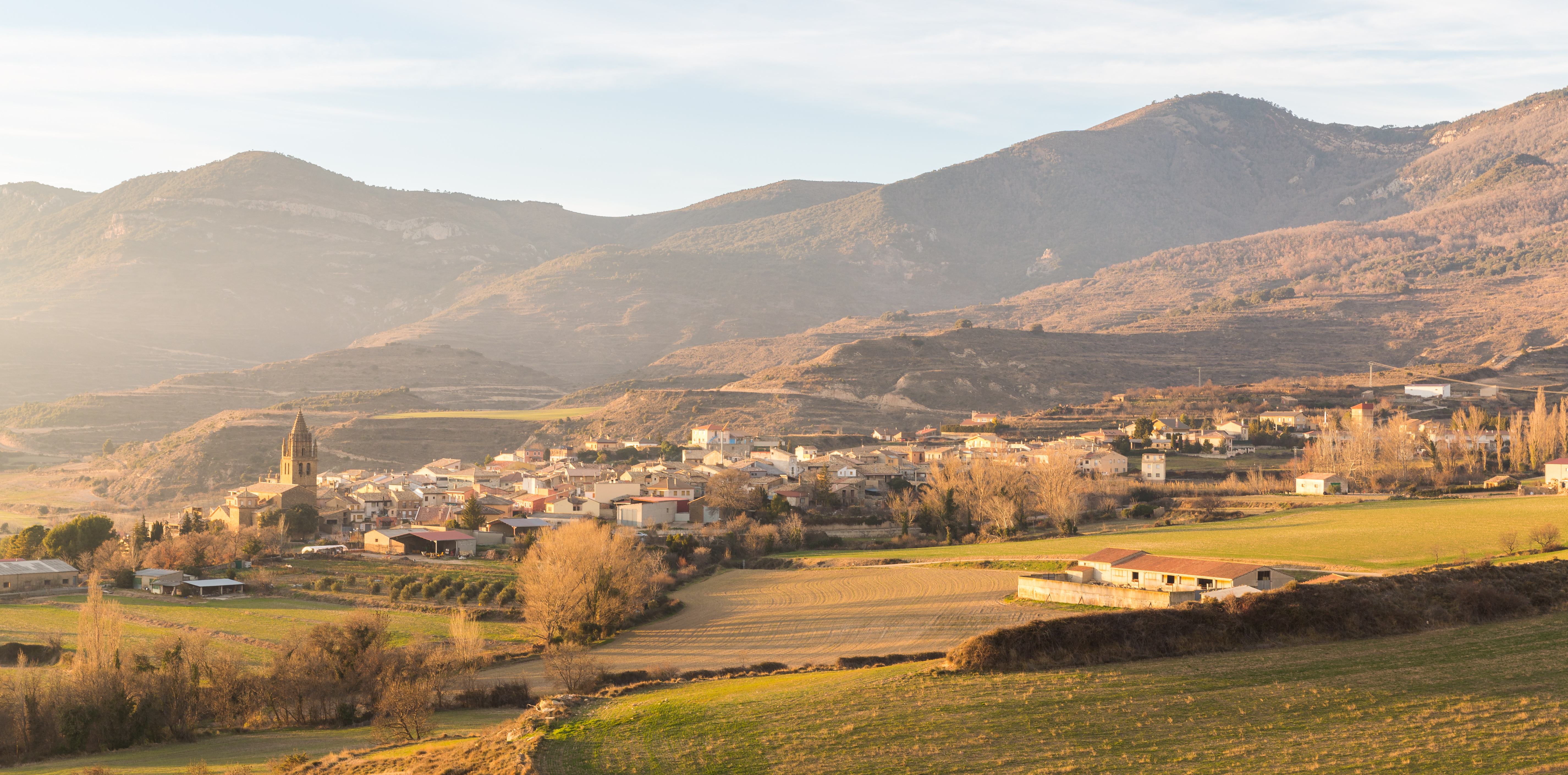 Loarre, Huesca, Spain